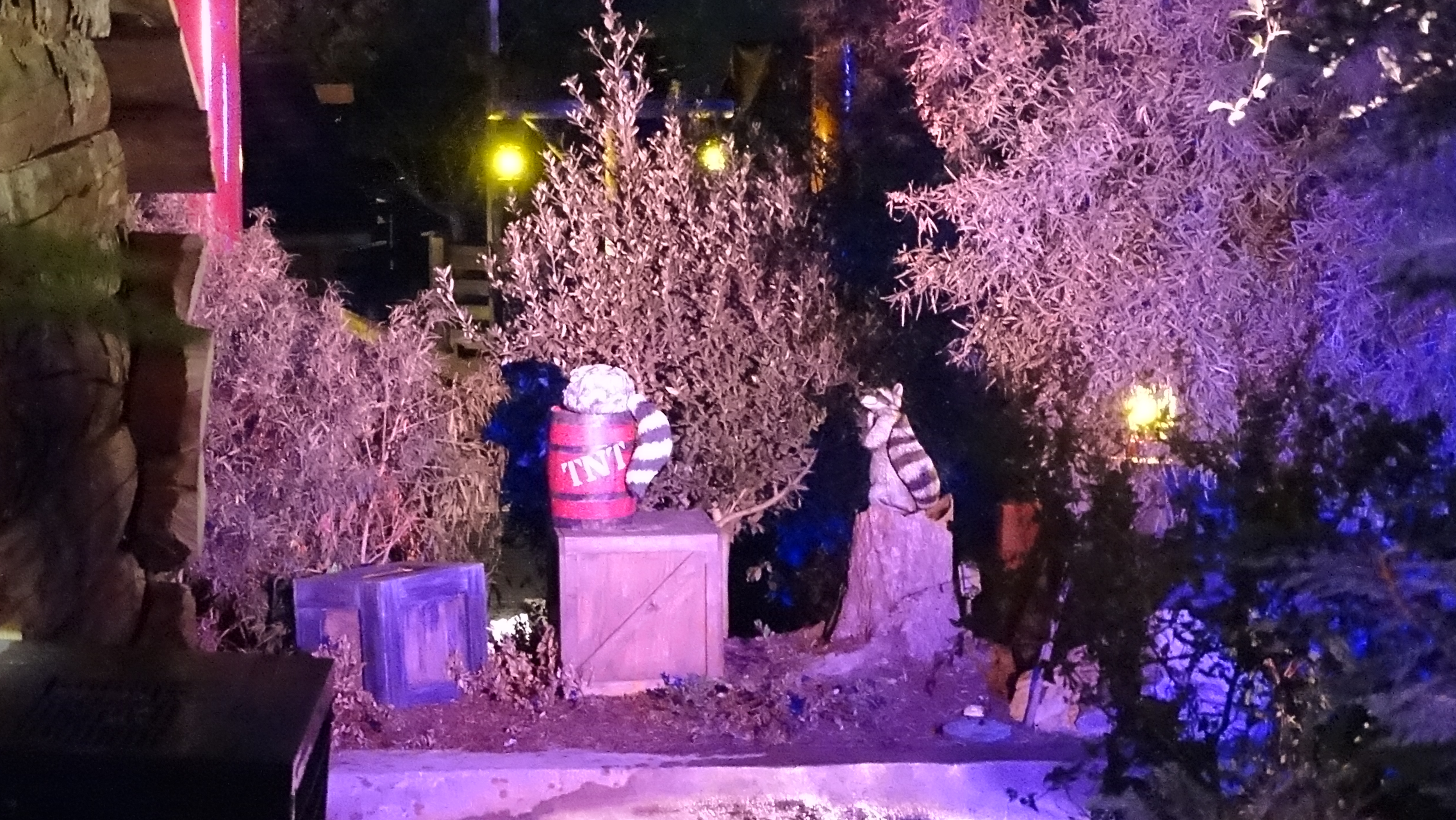 A curious racoon spots a TNT barrel